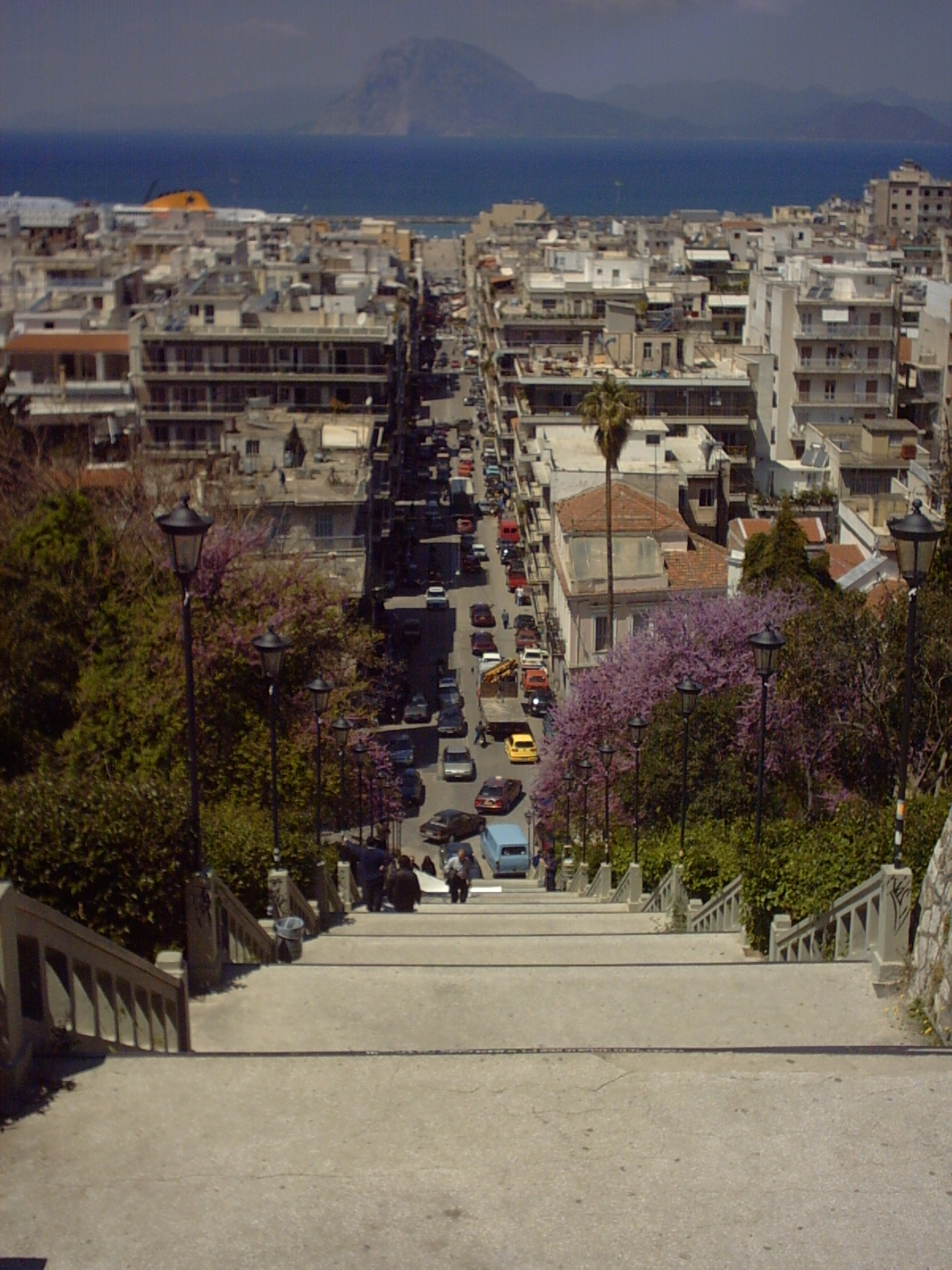 View from castle to harbour in Patras, Greece. April 2005.